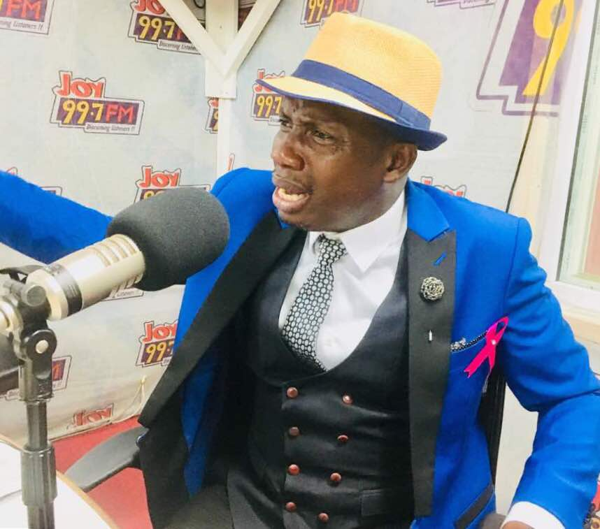 Lutterodt